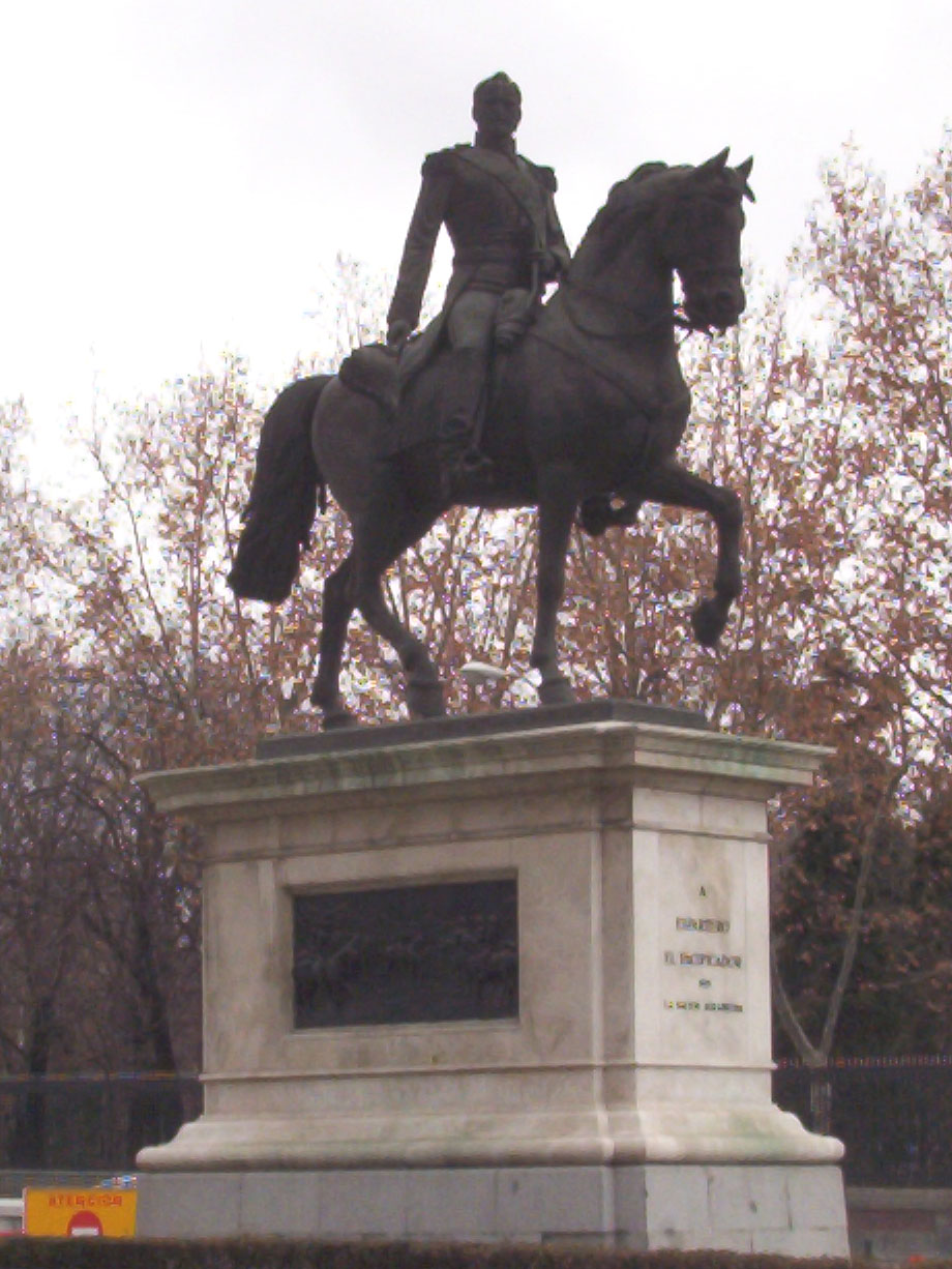 Monument to Baldomero Espartero, inaugurated in Madrid (Spain) in 1886. Sculptor: Pablo Gibert.